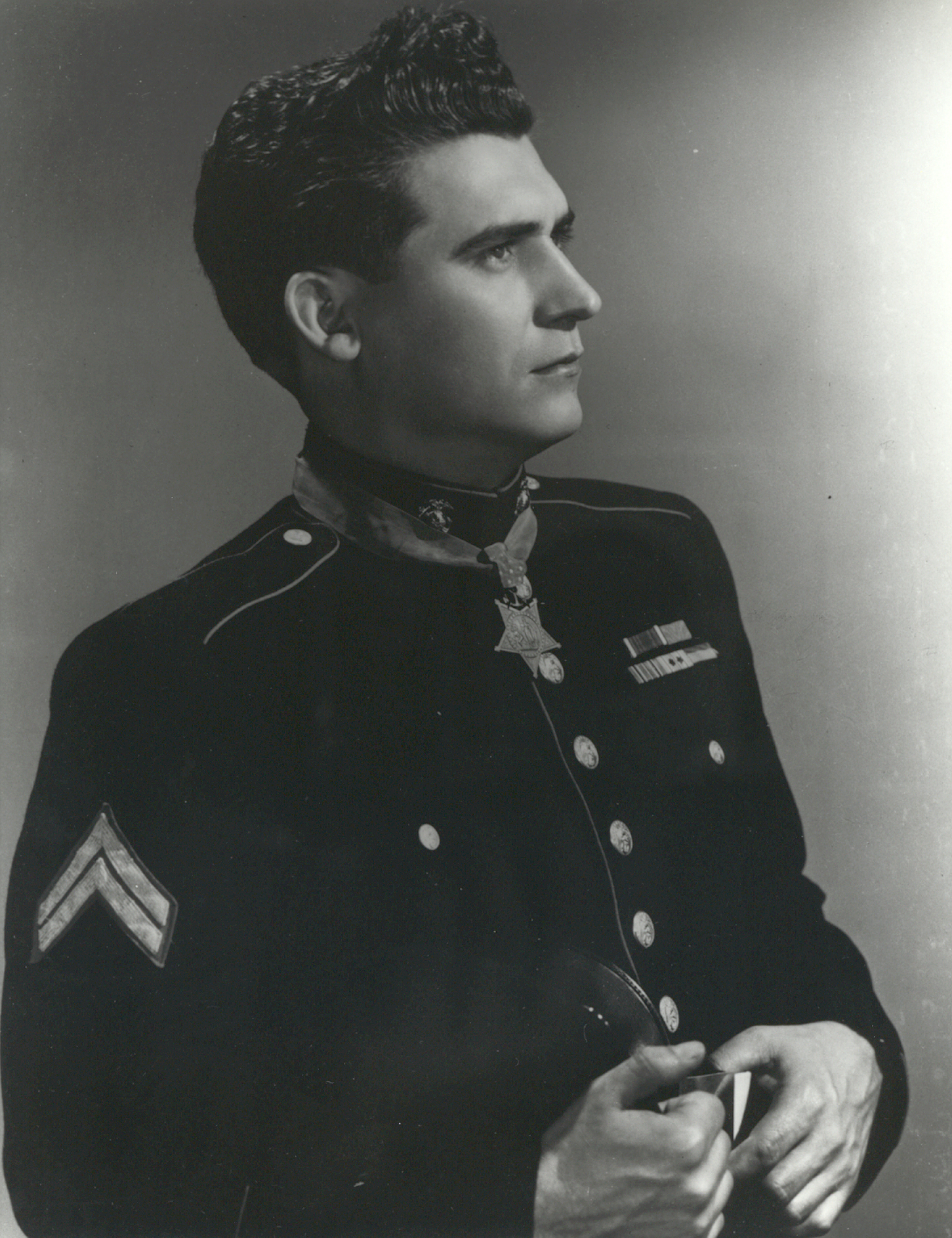 Corporal Luther Skaggs, Jr., USMC, World War II Medal of Honor recipient; photo from Official Marine Corps biography at